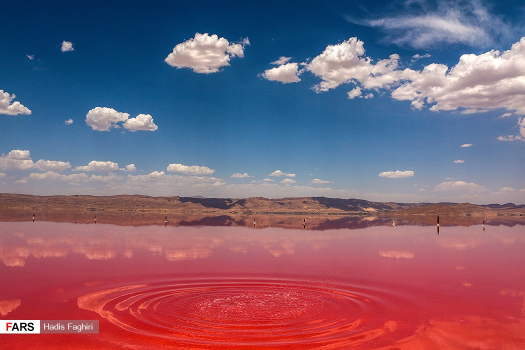 Red tide in Maharloo Lake, a seasonal salt lake in Iran. The red color is caused by saline-resistant algea or halobacteria.